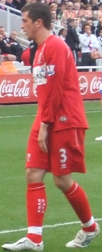 Andrew Taylor.